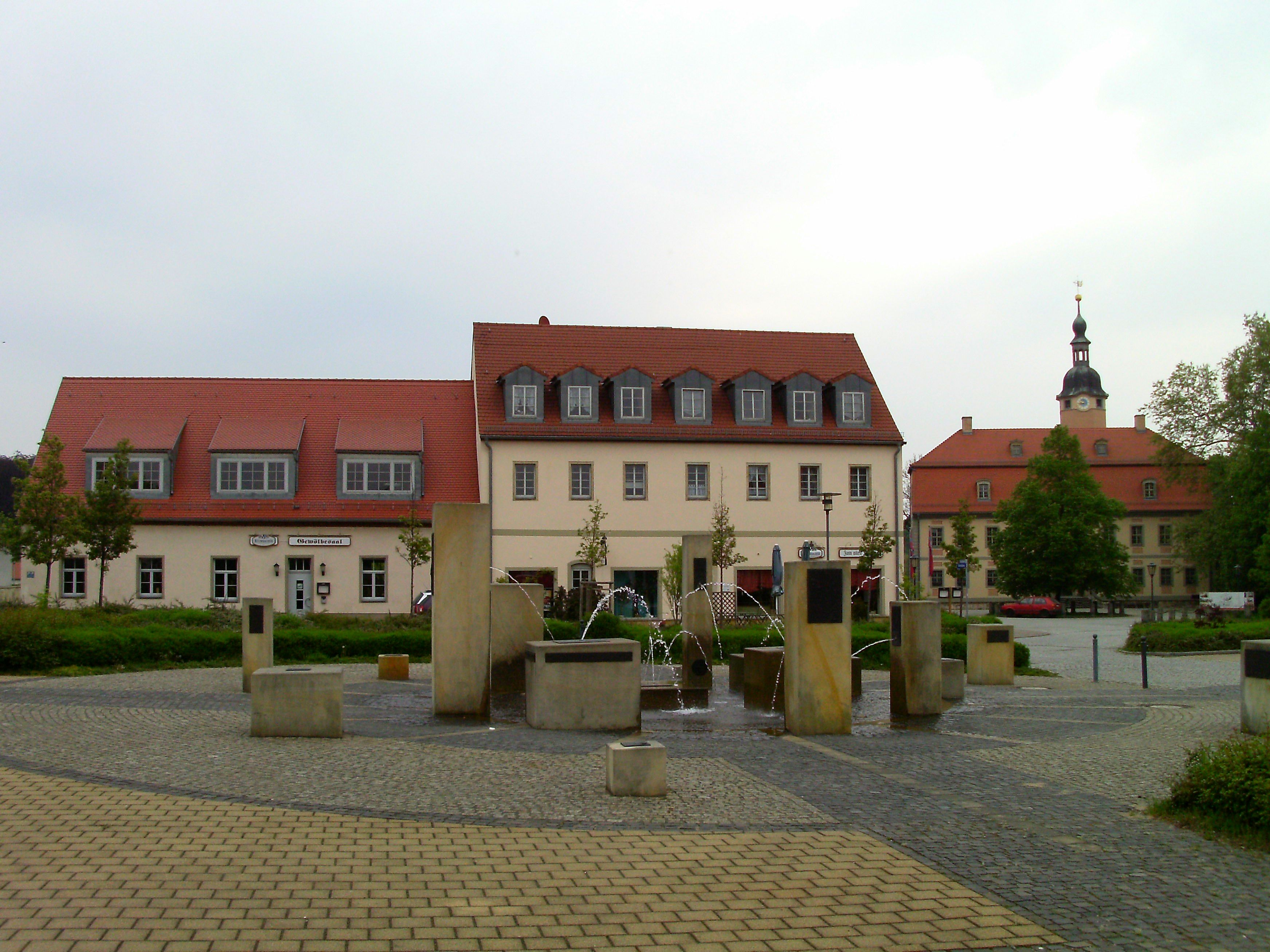 Schlossplatz in Machern (Leipzig district, Saxony)